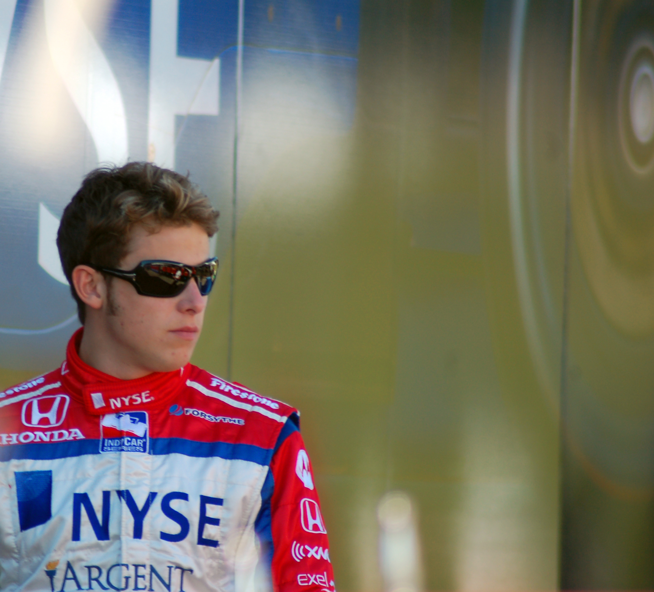 Racecar driver Marco Andretti in October 2007.